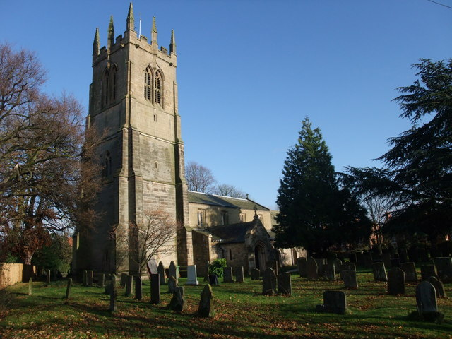 Holy Trinity parish church, Rolleston, Nottinghamshire, seen from the southwest